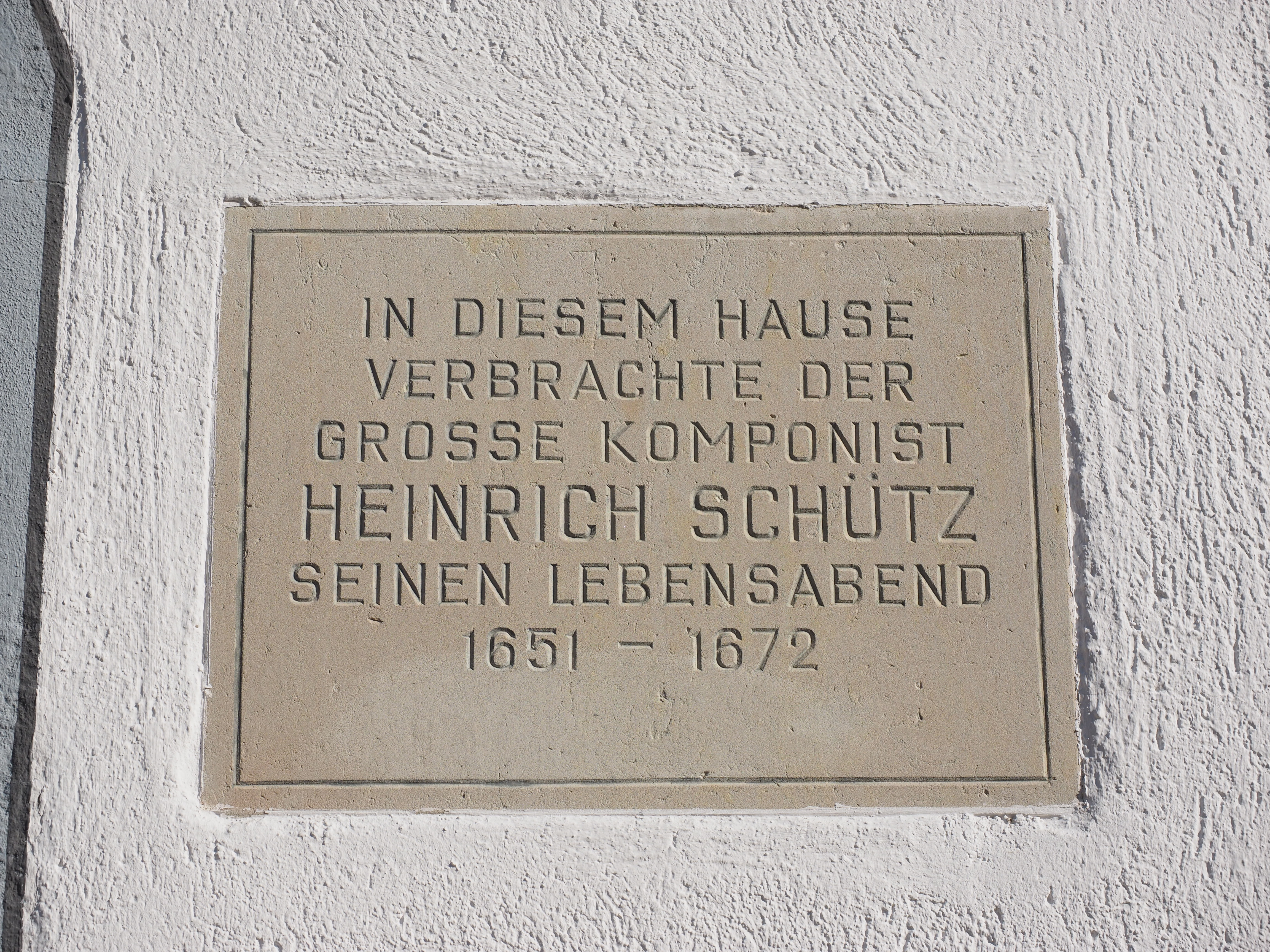 Plaque on Heinrich Schütz House, Weißenfels. Translation: In this house, the great composer Heinrich Schütz spent his sunset years.